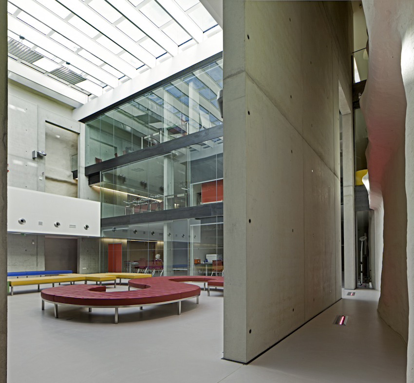 Scuola per le professioni sociali Hannah Arendt a Bolzano, foto ORCH